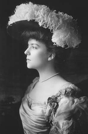 Alice Roosevelt Longworth (1884-1980), daughter of 26th US President, Theodore Roosevelt